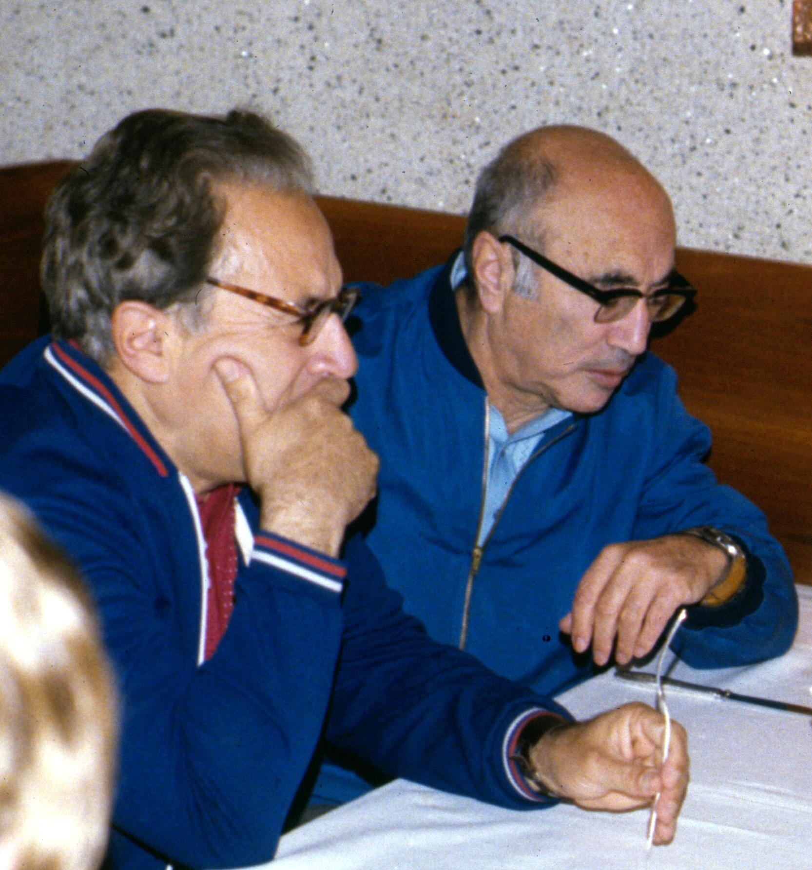 Soviet astrophysicists I. S. Shklovsky (left) and Ya. B. Zel'dovich, August 1977.